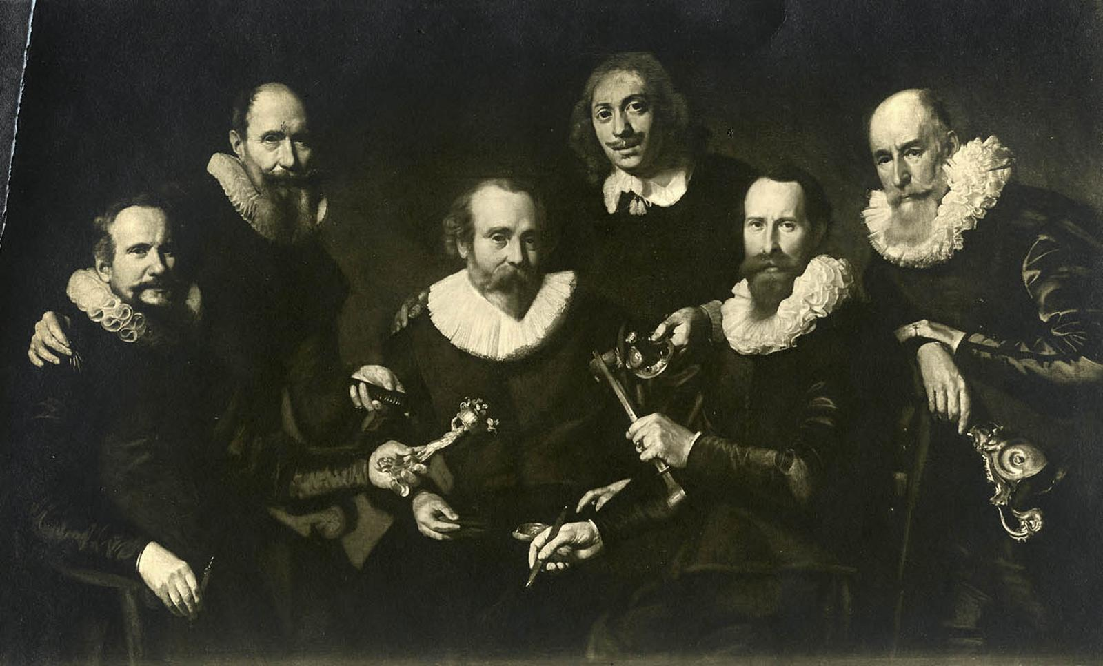 This image is available from the Netherlands Institute for Art Historyunder digital ID 280634. This tag does not indicate the copyright status of the attached work. A normal copyright tag is still required. See Commons:Licensing.